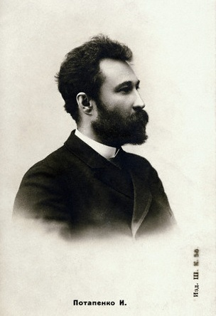 Russian writer Ignaty Nikolaievich Potapenko